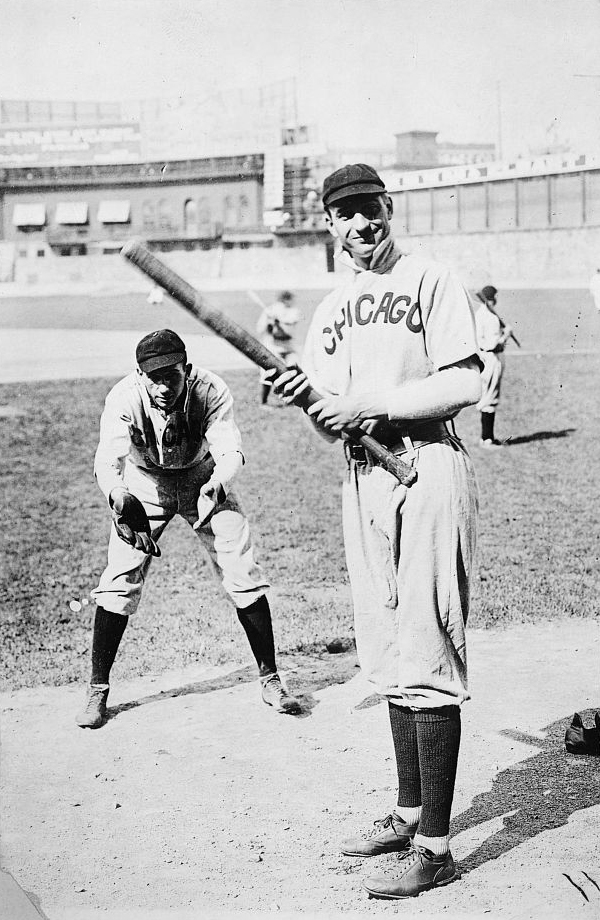 Major league baseball players Jack Pfiester (left, crouching) and Arthur "Solly" Hofman (right, batting). Both were members of the Chicago Cubs at the time. Based on the structure of the background building, tyhe photo appears to have been taken at the Philadelphia ballpark eventually known as Baker Bowl.